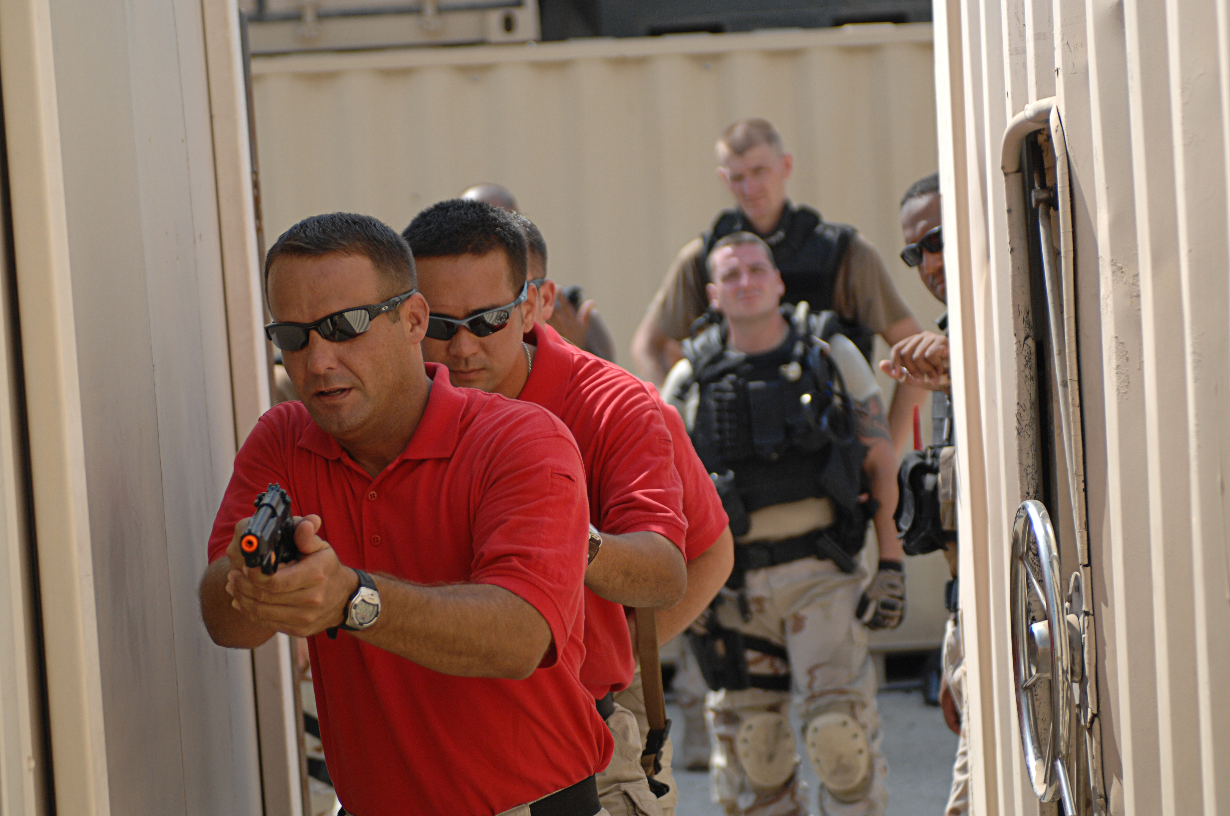 MINA SULMAN, BAHRAIN-- Chief Petty Officer Jesse Carns, and Petty Officer 2nd Class James Reynolds show the crew of the Coast Guard Cutter Monomoy (WPB 1326) proper room clearing techniques during a training exercise, October 18. The U.S. Coast Guard Patrol forces Southwest Asia Middle East Training Team is responsible for training U.S. and Coalition forces in proper boarding tactics and procedures.